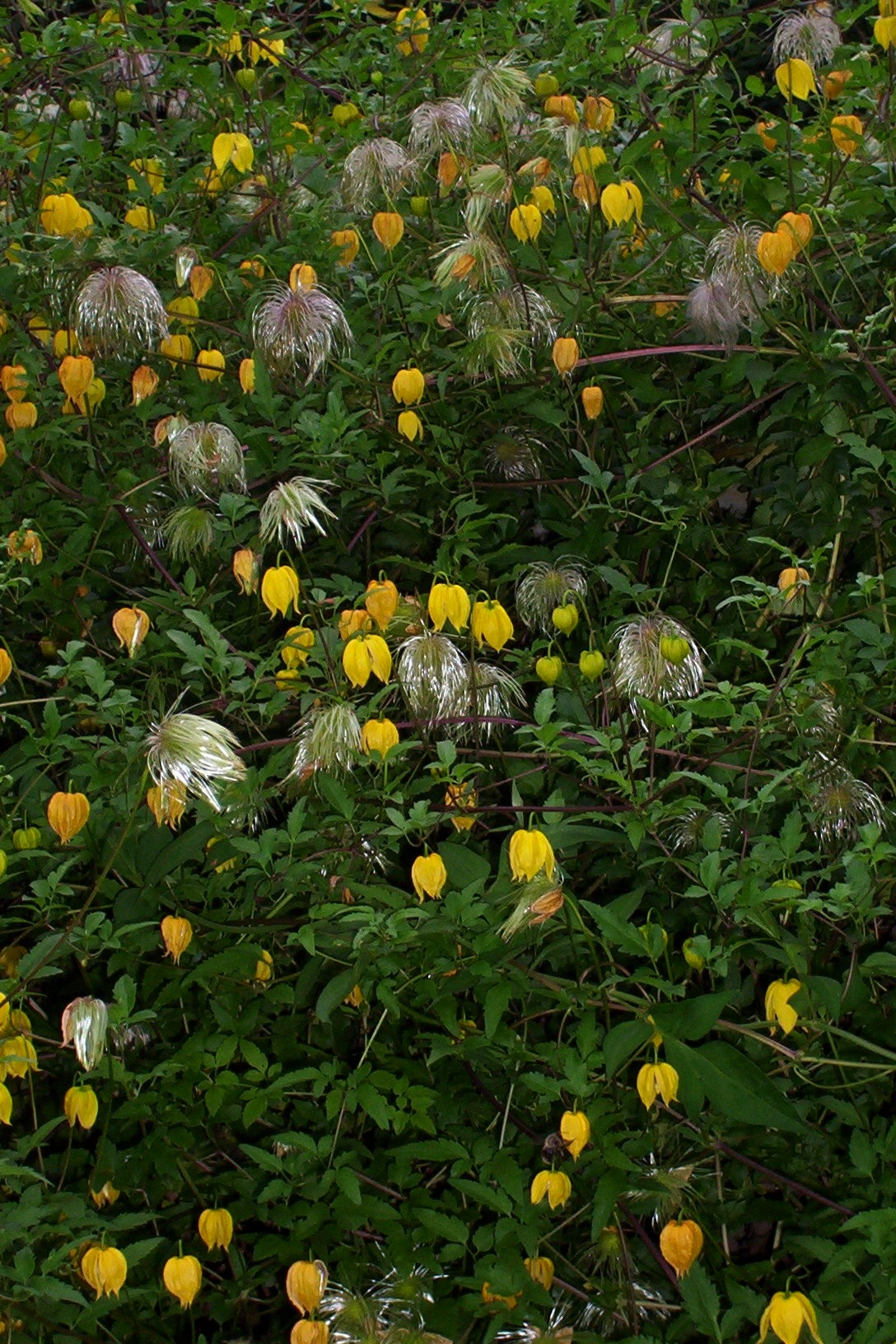 Or thibetanus. I'm never quiet sure which is which. This is the lemon peel clematis, flowers and seed heads together in autumn. Ranunculaceae, China